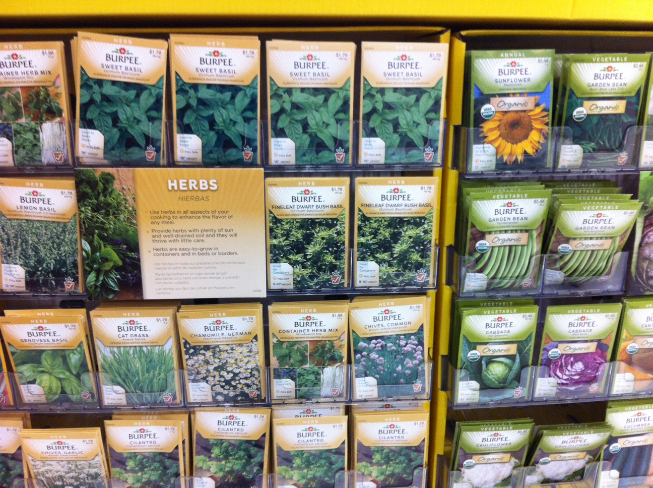 Herb Seed Packets